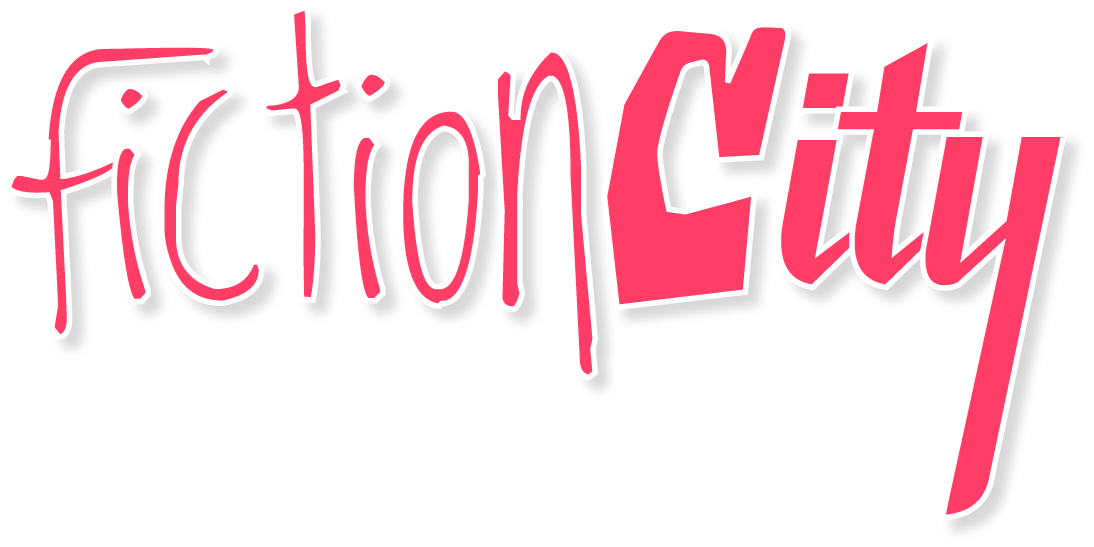 Logo red social Fiction City